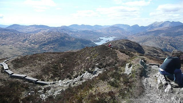 Panorama from Torc Mountain (7). Looking west. Upper Lake (one of the Lakes of Killarney) can be seen, with Macgillycuddy's Reeks behind. The boardwalk to the top of Torc Mountain is also prominent. Next picture 777009